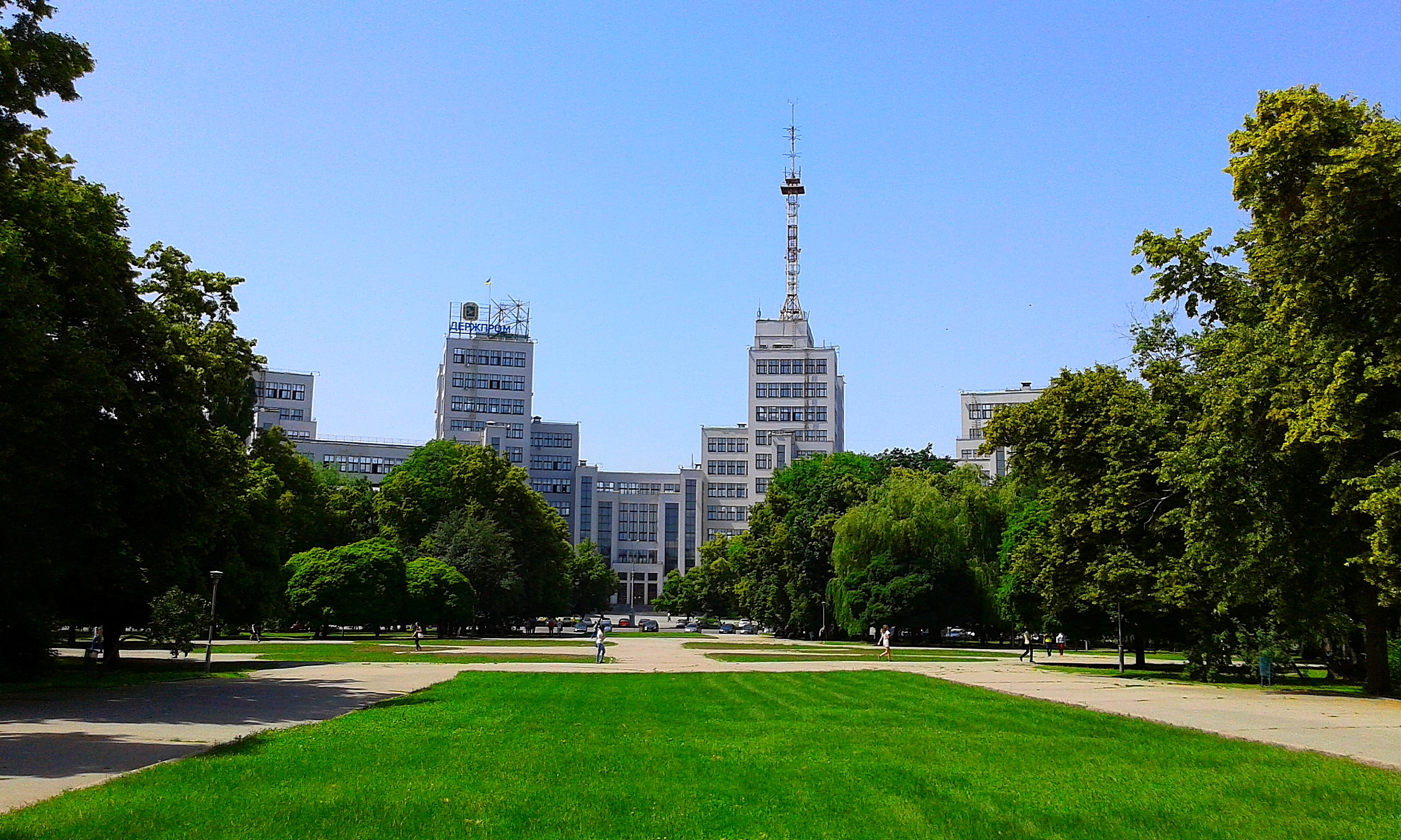 (42) DERZHPROM BUILDING IN CITY OF KHARKIV STATE OF UKRAINE PHOTOGRAPH BY VIKTOR O LEDENYOV 20160621